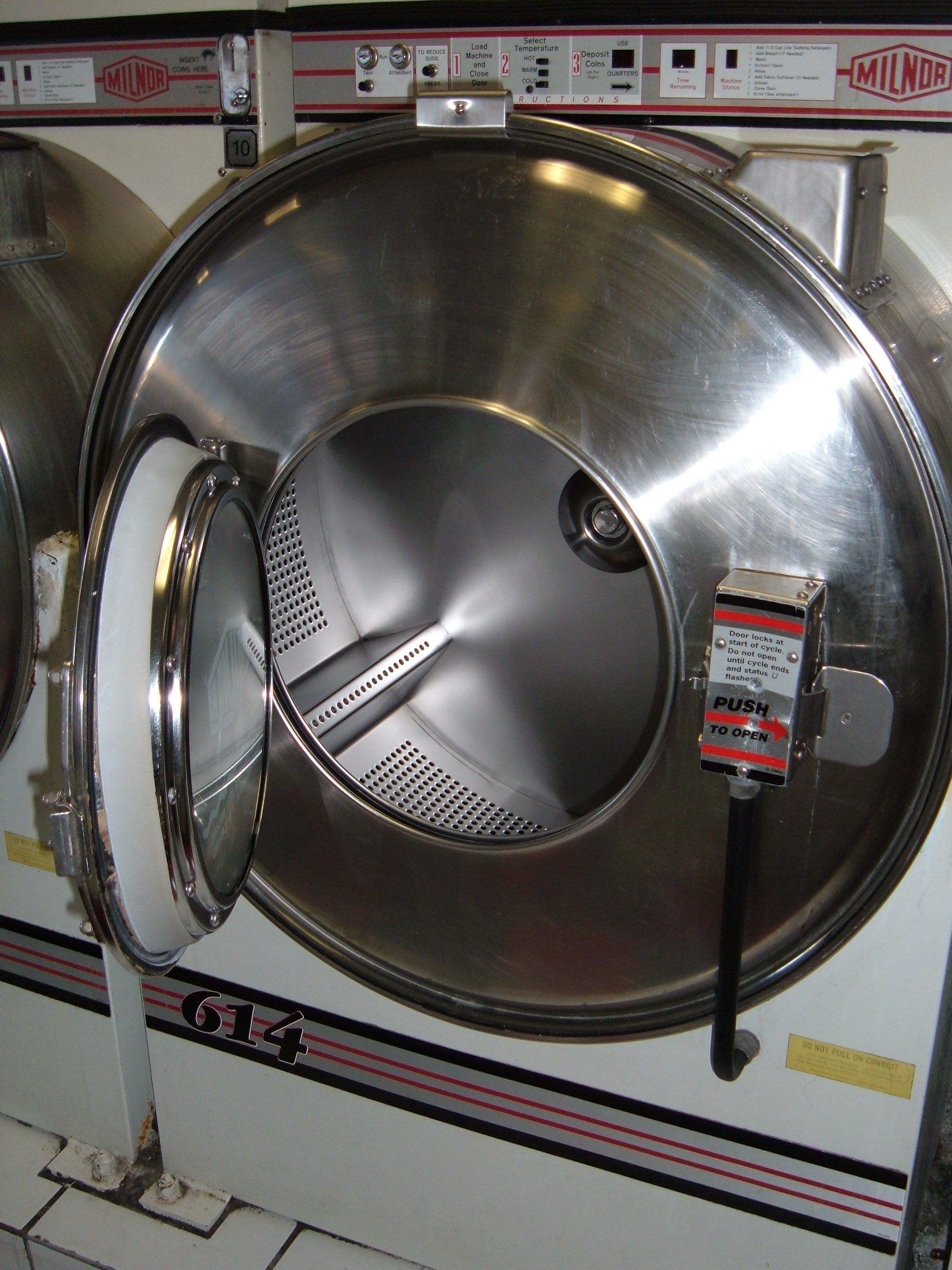 Coin-operated Milnor commercial washing machine found in a laundromat in Daly City, California.